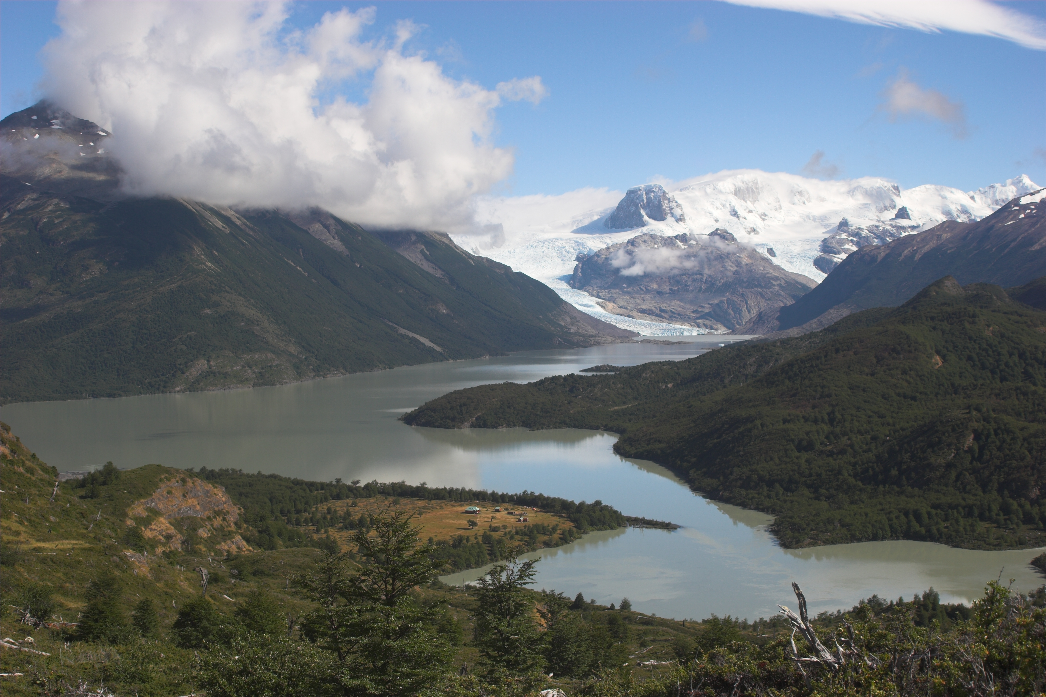 Lago Dickson, with Glaciar Dickson in the background and Refugio Dickson in the clearing in the foreground.